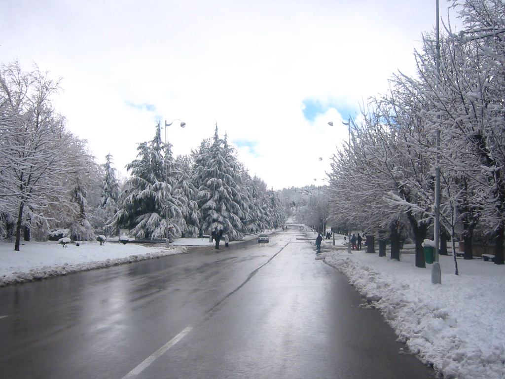 Moroccan city ifrane in winter, 7 jan 2006